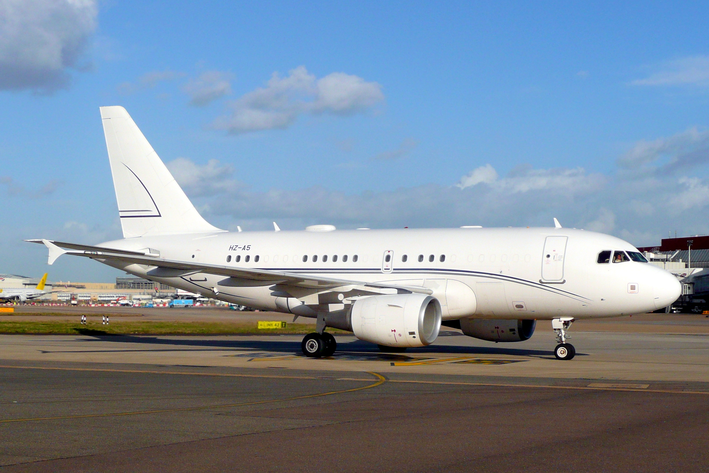 HZ-A5 Airbus ACJ318 Alpha Star Aviation heading for std 461 previous guises being HB-IPP & 9H-AFM.